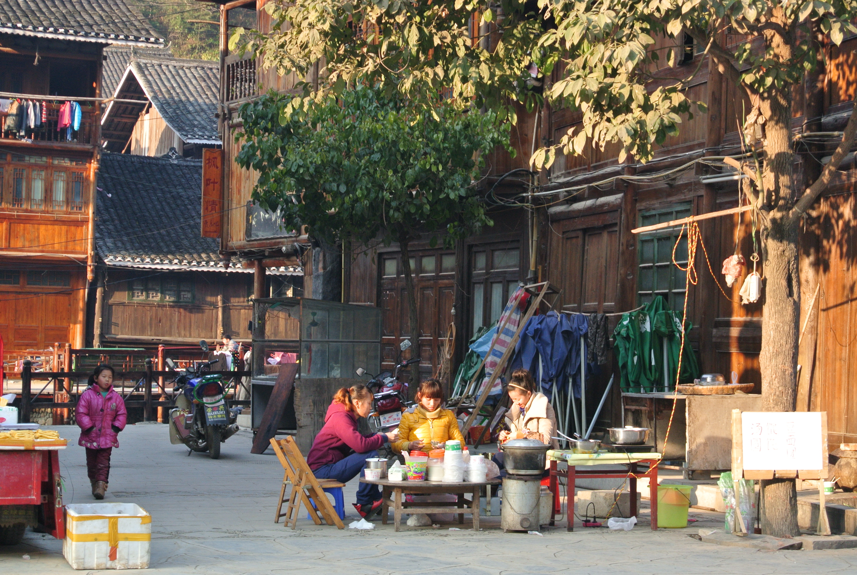 Zhaoxing Village, Guizhou, China